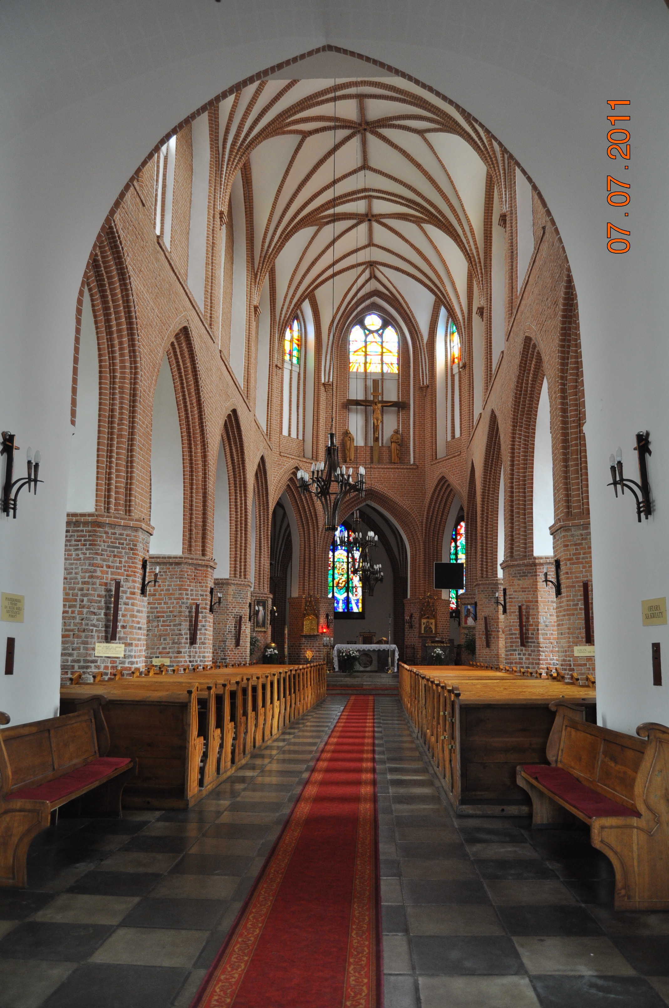 Interior of Our Lady of Perpetual Help church in Świdwin, Poland